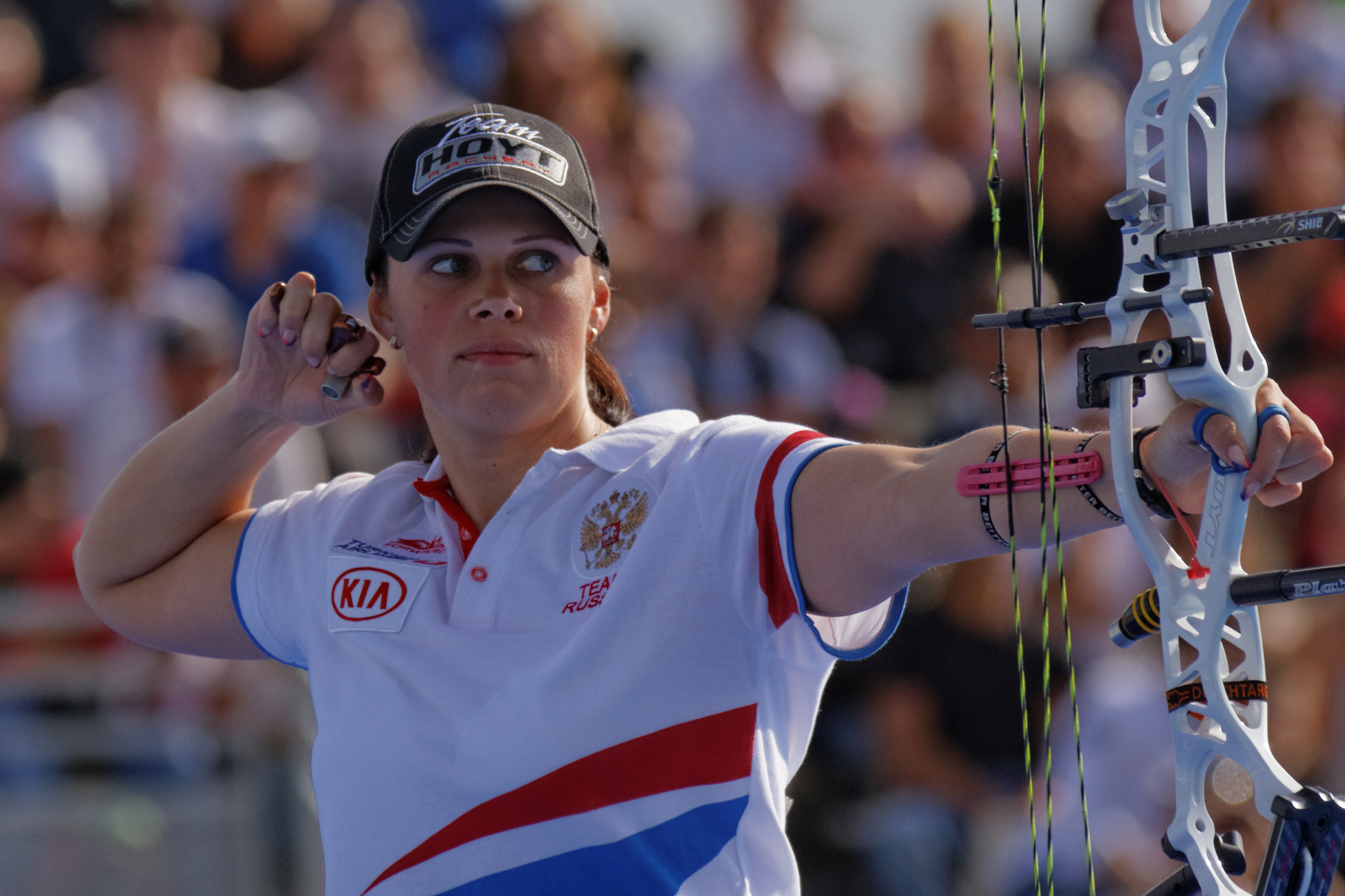 2013 FITA Archery World Cup, Paris, France. Women's individual compound 3rd place: Albina Loginova vs Seok Ji-Hyun.